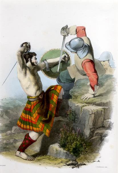 "Mac Millan". A plate illustrated by R. R. McIan, from James Logan's The Clans of the Scottish Highlands, published in 1845.